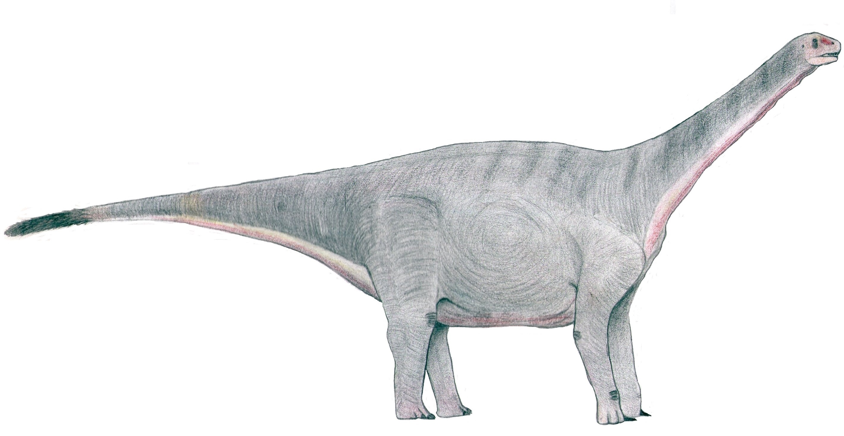 ZBY atlanticus one turiasaurian of Portugal.